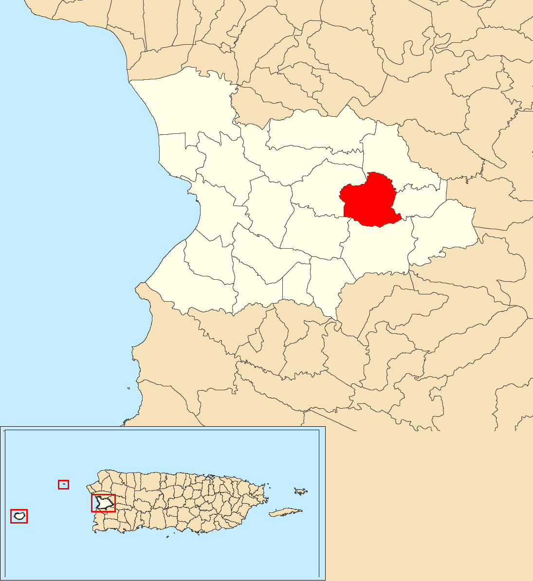 Bateyes, Mayagüez, Puerto Rico locator map